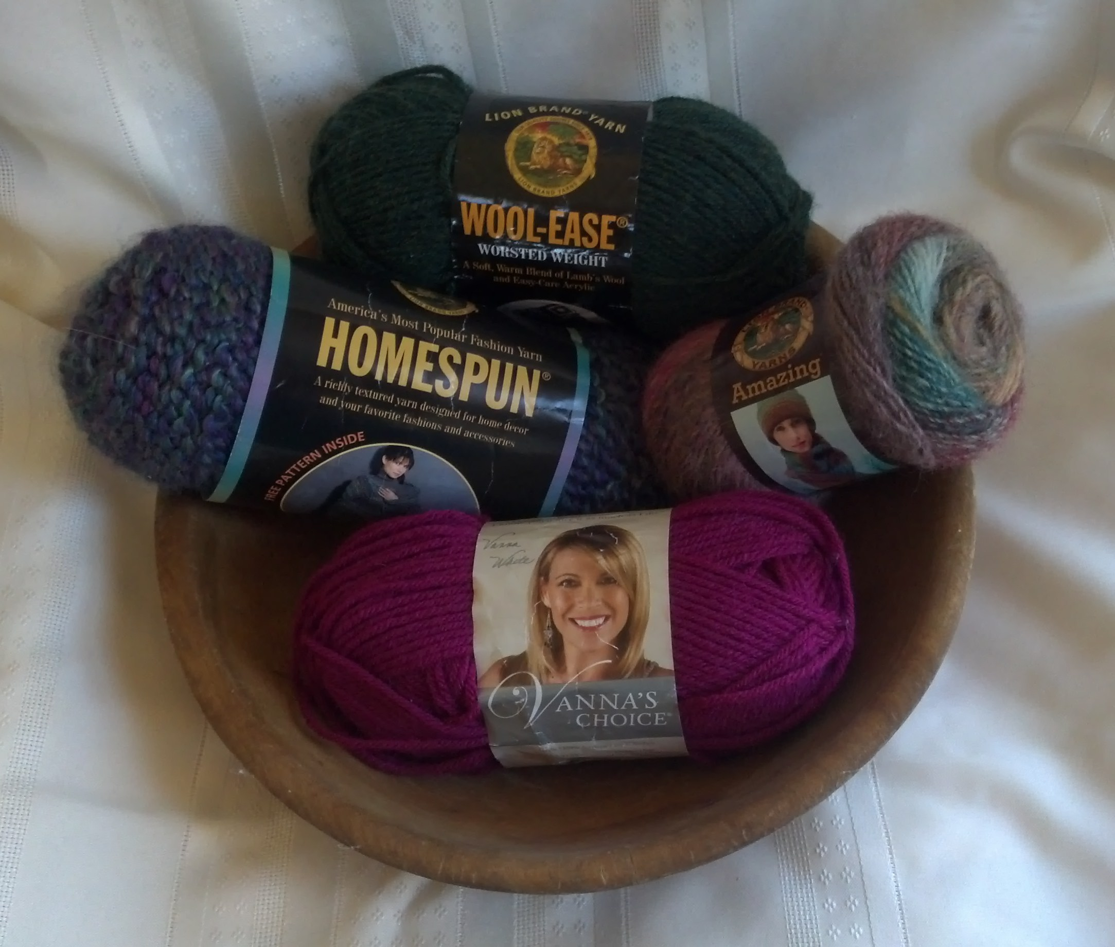 Popular Lion Brand yarns: Wool-Ease, Homespun, Amazing and Vanna's Choice